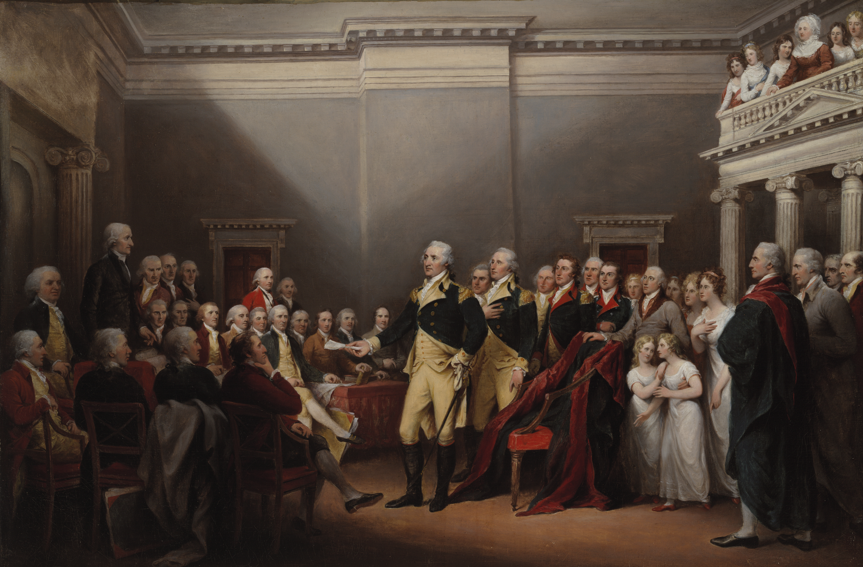 "The Resignation of General Washington, December 23, 1783," oil on canvas, by the American artist John Trumbull. 20 in. x 30 in. x 1 in. Yale University Art Gallery, Trumbull Collection. Smaller version of General George Washington Resigning His Commission in the United States Capitol rotunda. Depicts George Washington's resignation as commander-in-chief.